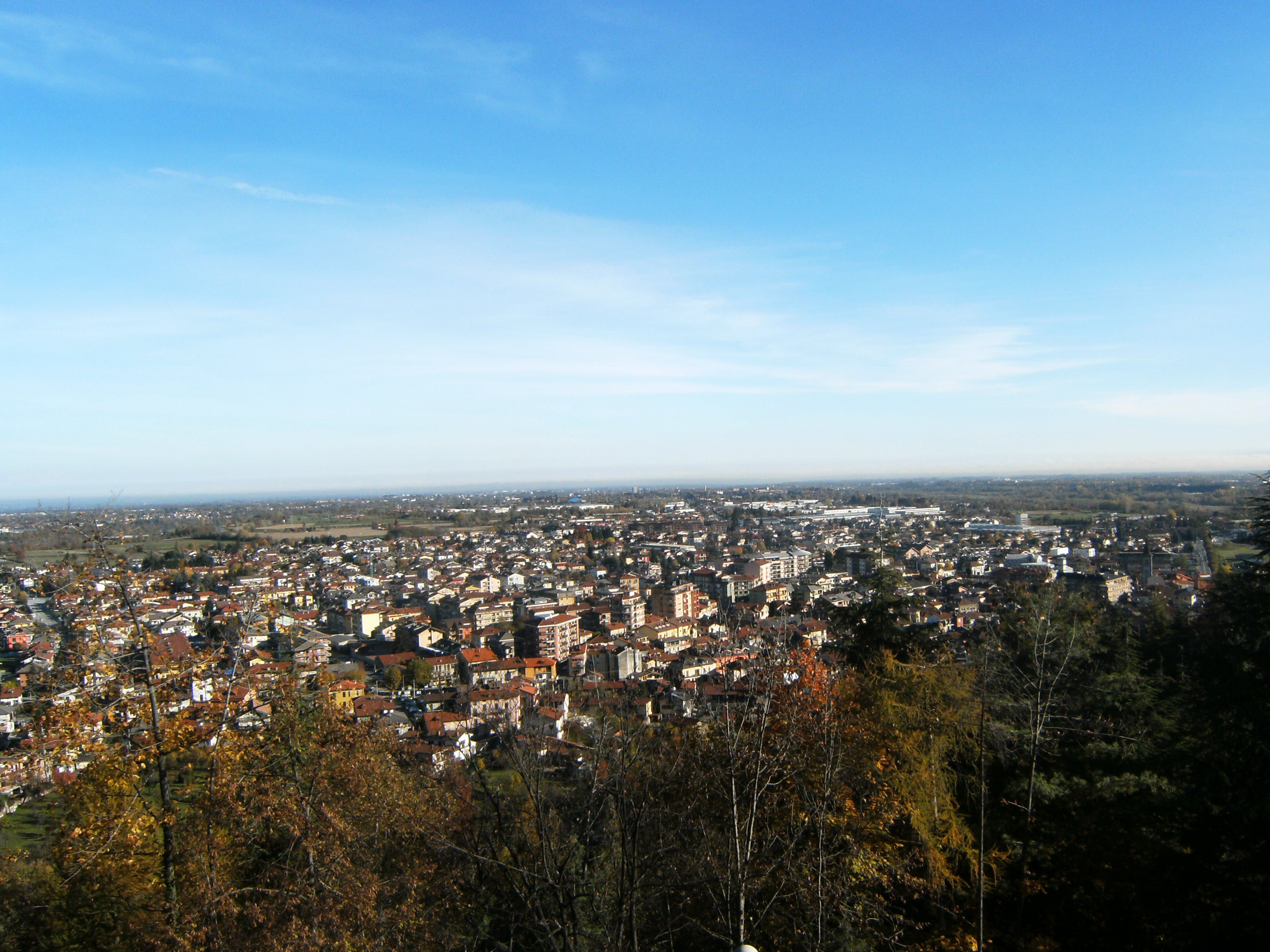 Panorama of Borgo San Dalmazzo